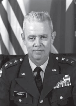 Lieutenant General Howard W. Penney of United States army was first director of Defense Mapping Agency from July 1972 to August 1974.